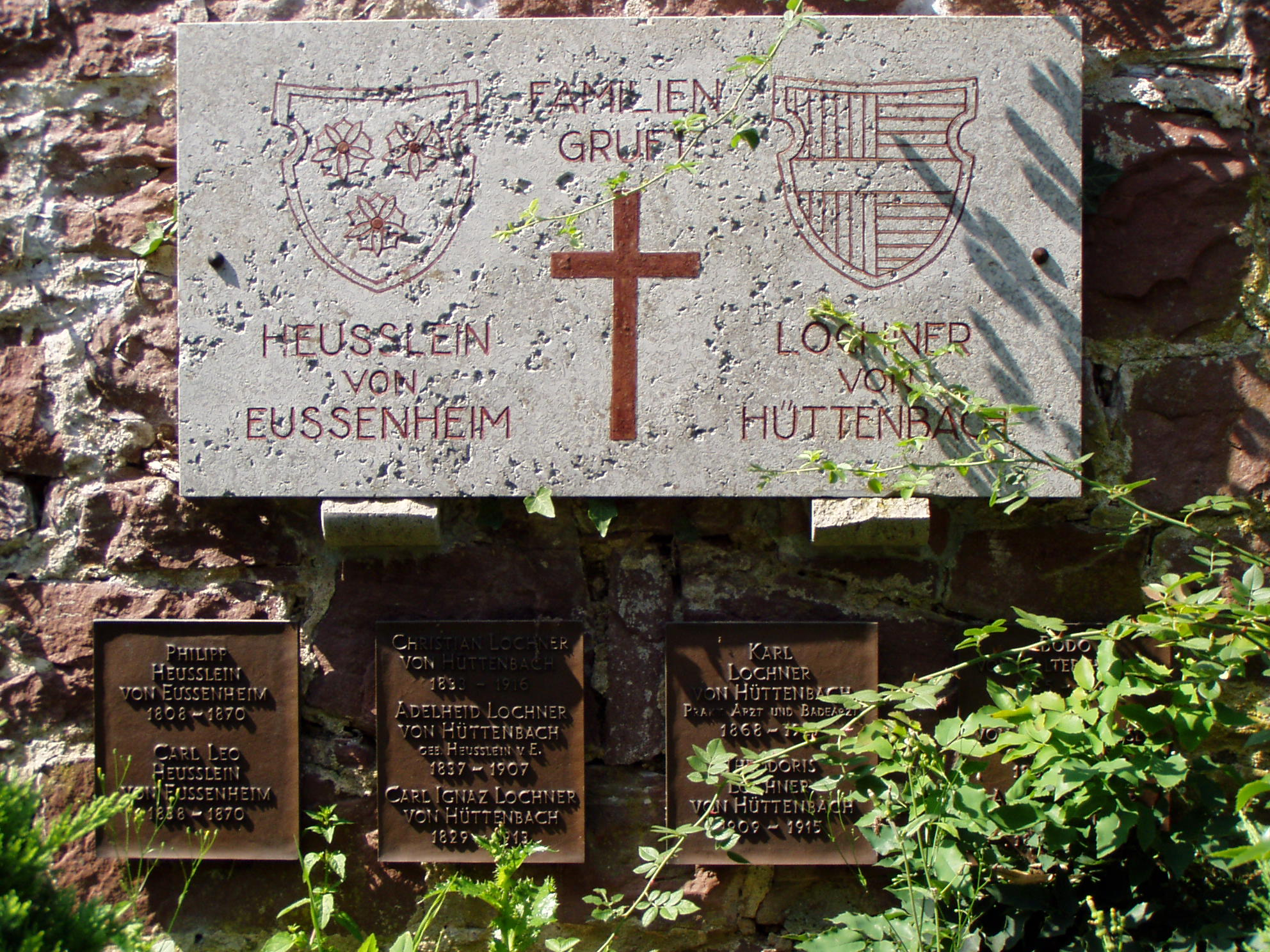 Tombstone of Carl Leo Heußlein von Eußenheim (1838-1870) and his family in Bad Kissingen (Germany)